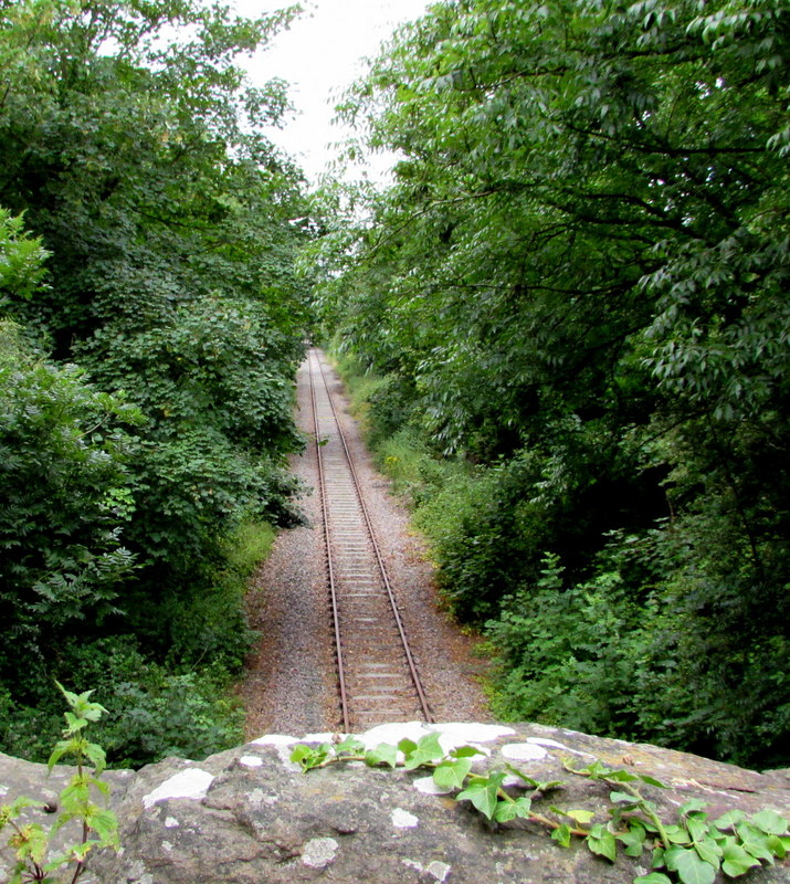 Single-track railway west of Nibley Lane near Iron Acton, viewed from Robin Hood Overbridge. Shown on maps as Mineral Railway, this line is part of the old Thornbury branch line that has been retained to serve Tytherington Quarry.